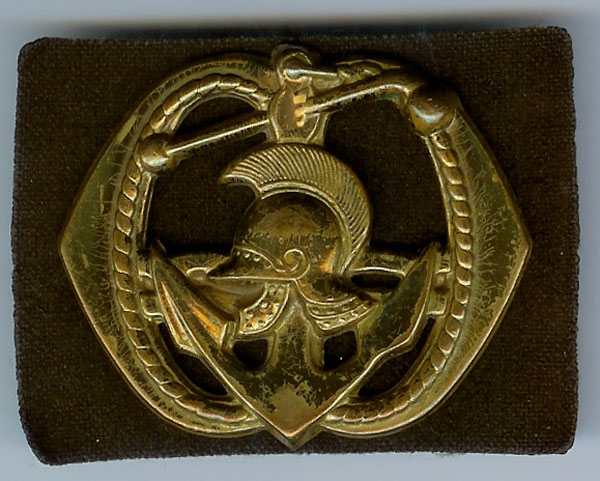 Dutch cap badge from the Pontoneers